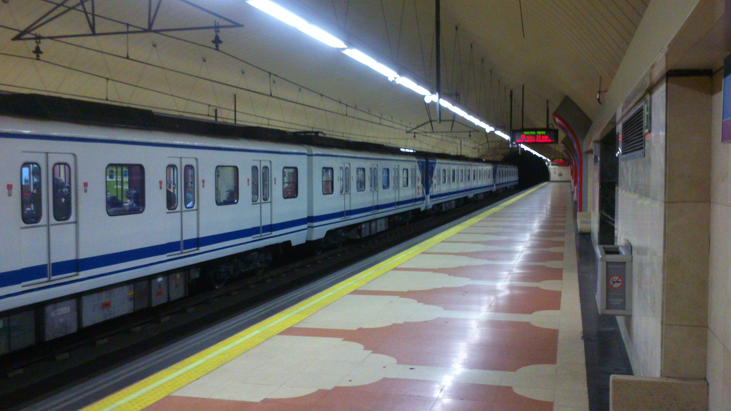 A 5000 CAF series located on Vinateros Station from Metro de Madrid